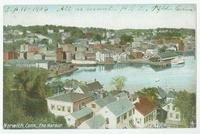 Postcard: Bird's-eye view of the harbor, Norwich, 1906 postmark Description: Caption: "The Harbor, Norwich, Conn." The store Web page shows the reverse side of the undivided-back postcard, clearly showing postmarks for September 11 and September 12, 1906. Opposite side also says "Published by Cranston Co., Norwich, Conn. No. 2513 / Made in Germany" Postcard is addressed to "Mrs. Ida Reynolds, Derby, Conn." Source: eBay store Web page